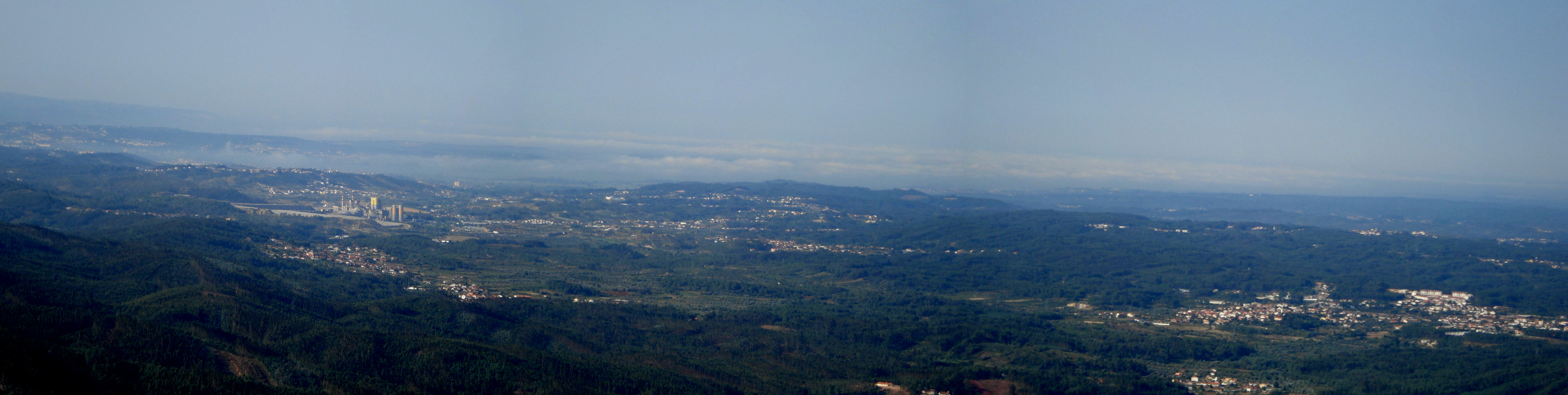 photo-mountage from cruz alta's view